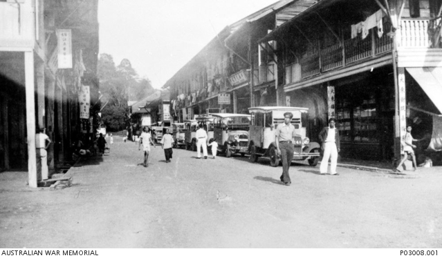 Street scene in pre-war Sandakan with locals inhabitants walking down the street and a line up of custom built taxis or small buses parked against the curb.